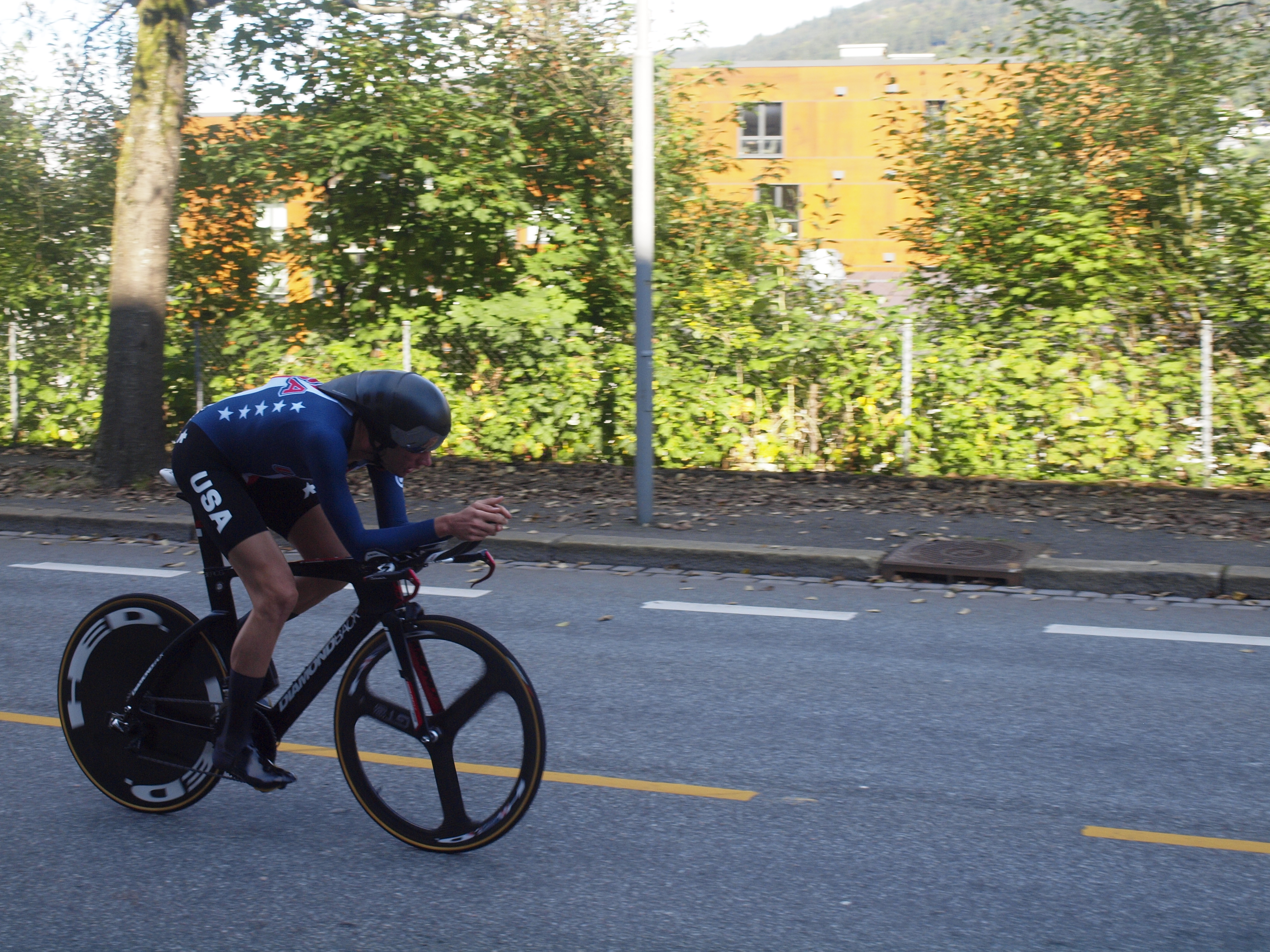 Brandon McNulty at the 2017 UCI World Championships